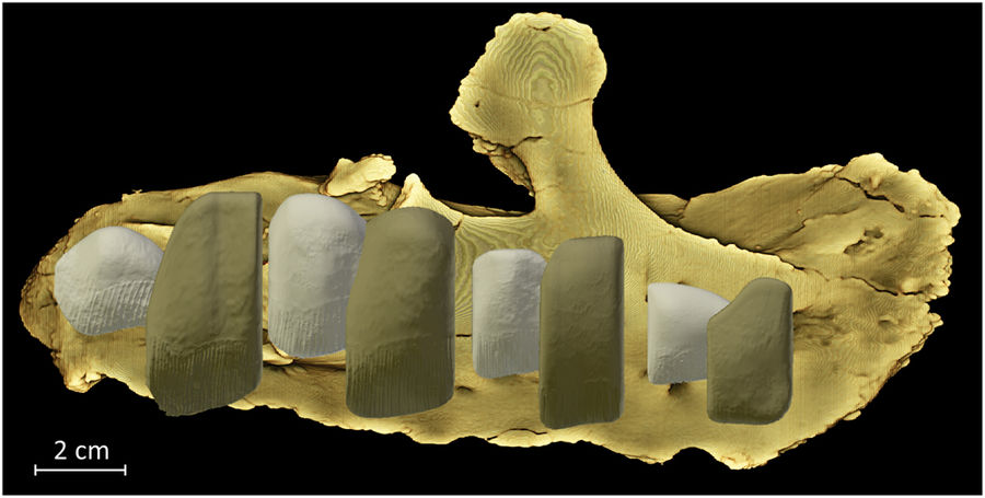 Figure 2 Reconstruction of the maxillary dentition of Matheronodon provincialis gen. et sp. nov. in lateral view from CT scans of MMS/VBN-02-102.